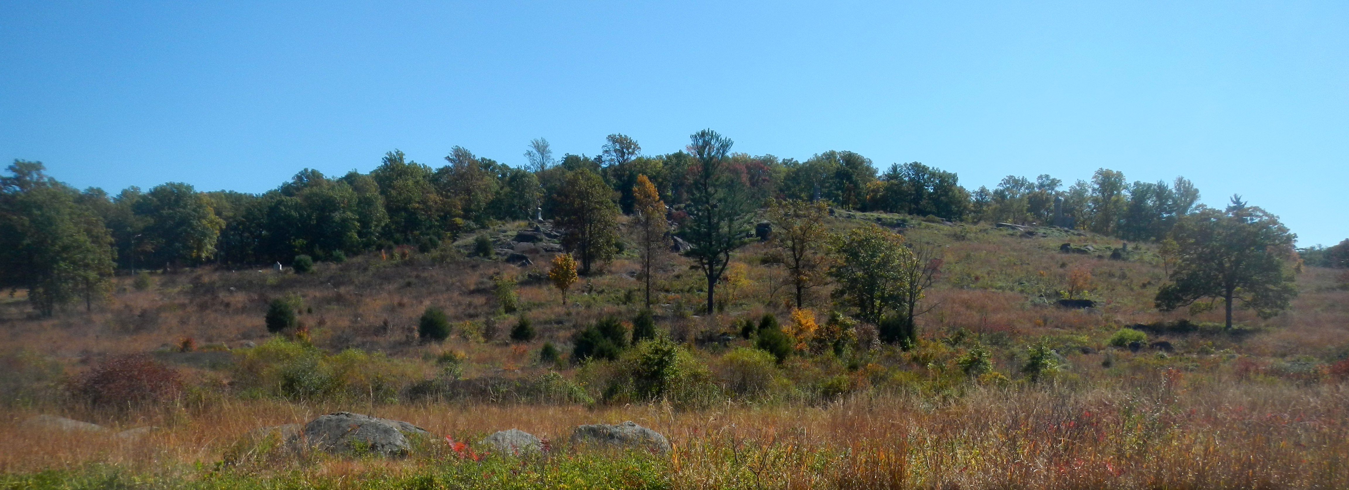 Little Round Top viewed from near Devil's Den, Gettysburg Battlefield.